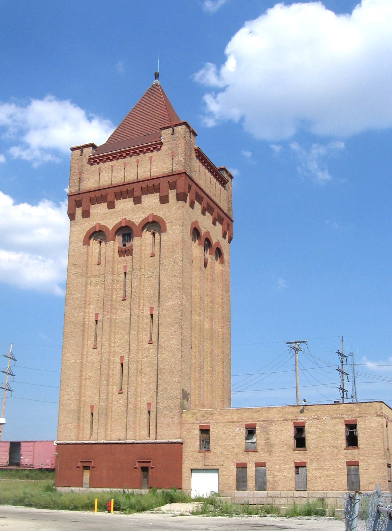 The last vestige of the Hawthorne Works plant in Cicero, Illinois.